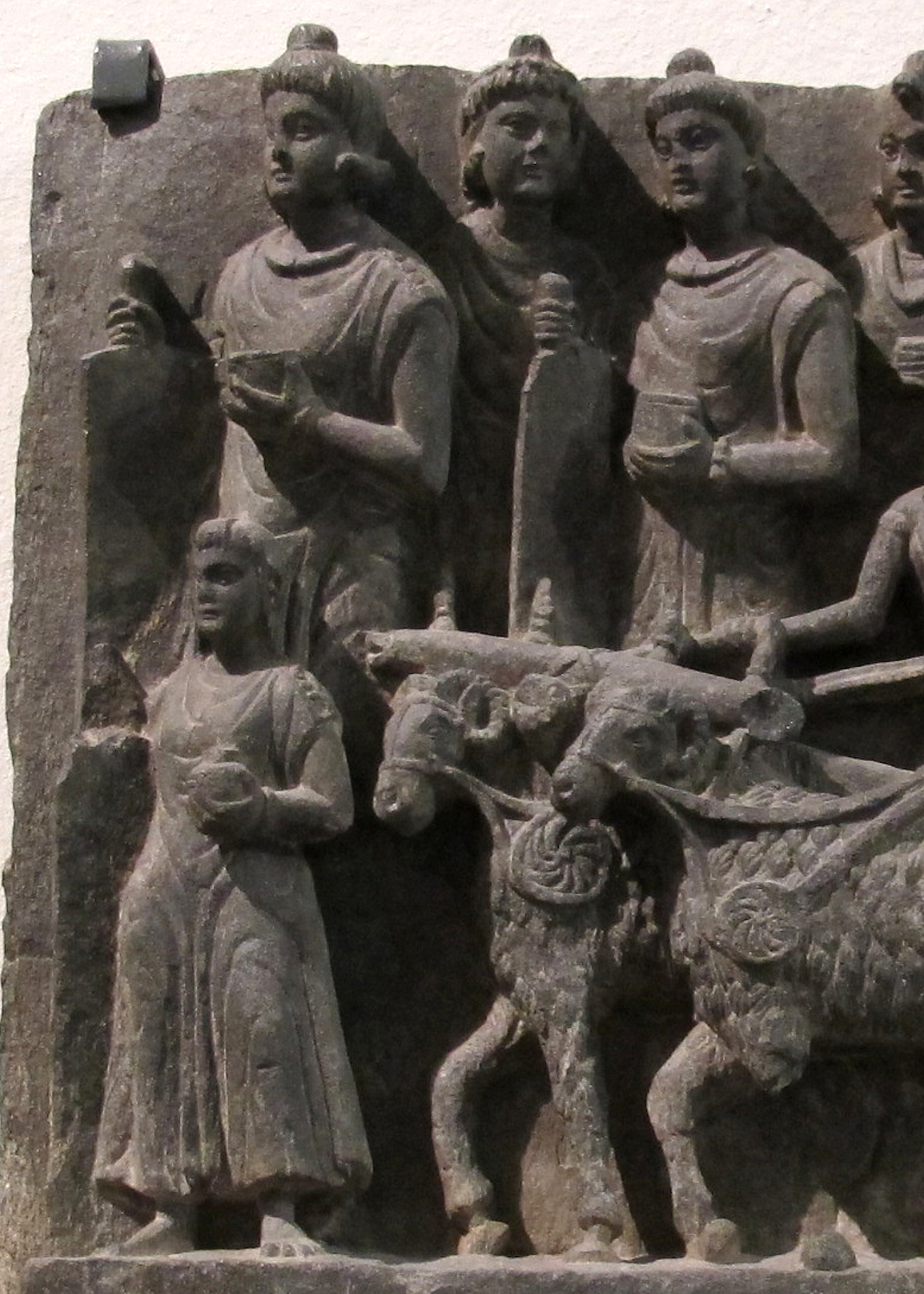 Gandhara student with writing palettes